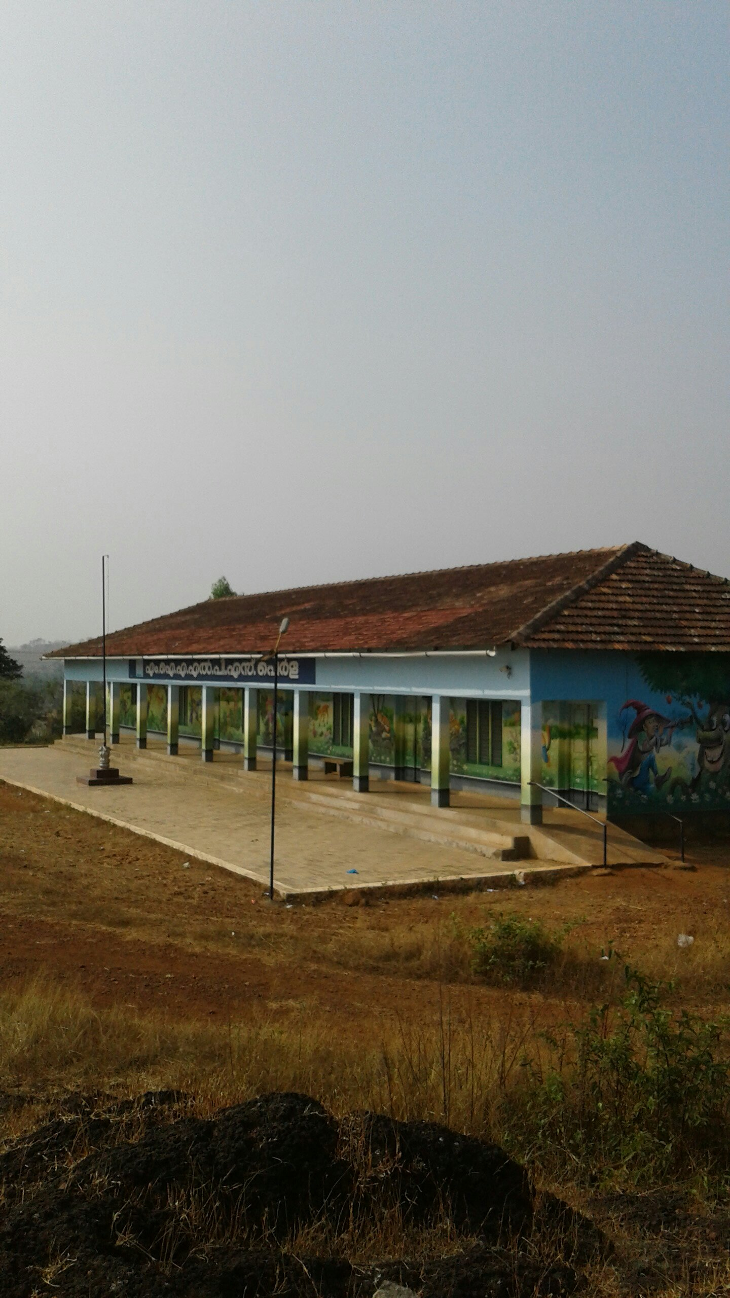 Located near the Perla check post on the Badiyadukka-Puttur Road. Kasaragod district, Kerala, India.